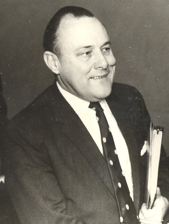 New Zealand Minister of Finance (later Prime Minister), Robert Muldoon, Thurs. 26 June 1969.